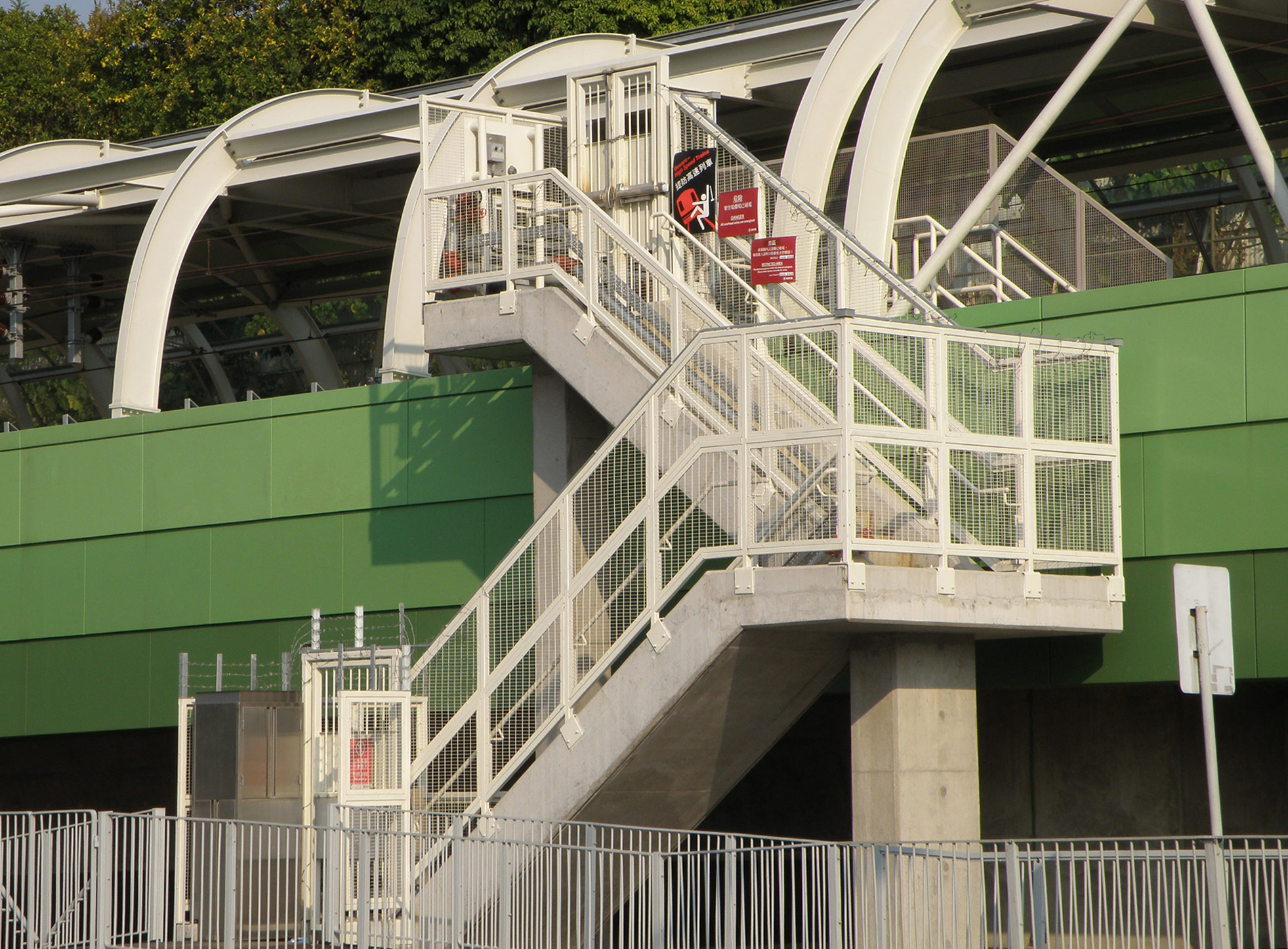 Emergency exit between trains viaduct and Ap Lei Chau Bridge, Sham Wan, Hong Kong.